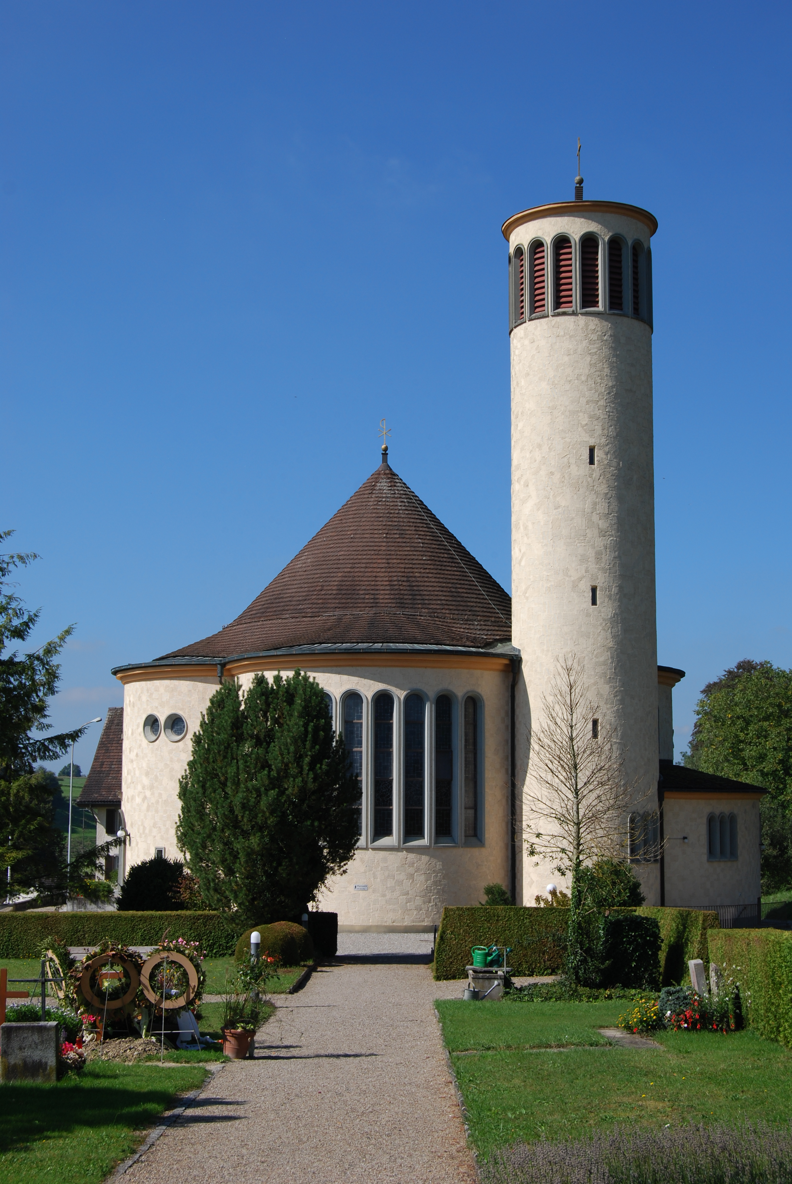 Catholic church St. Joseph at Bussnang (KGS n. 13659), canton of Thurgovia, Switzerland